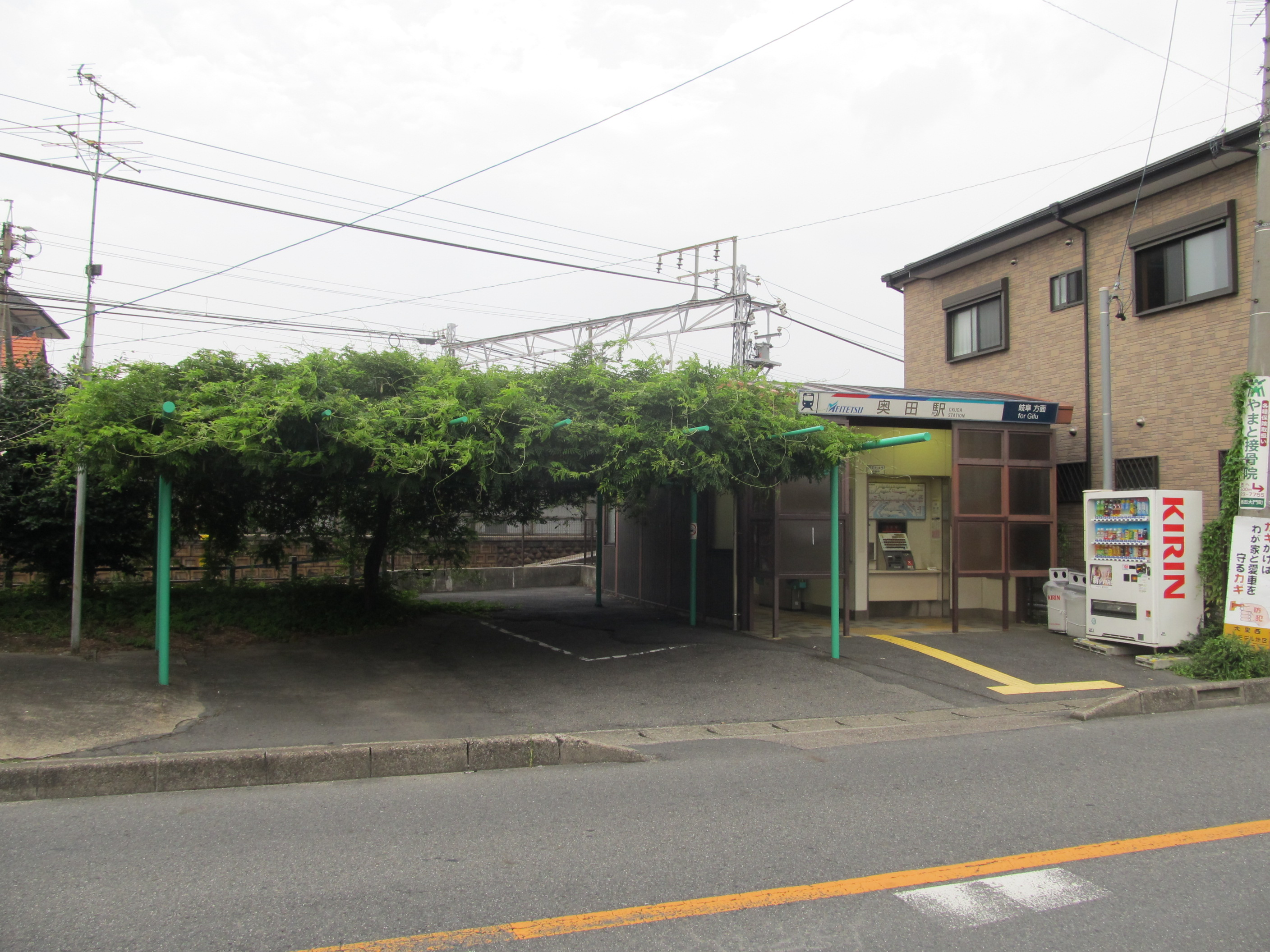 Nagoya Railroad Nagoya Main Line Okuda Station Building (for Gifu), and Wisteria trellis.